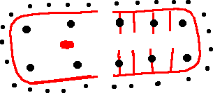 Ground plane of house from the Pre-Roman Iron Age of Northern Europe